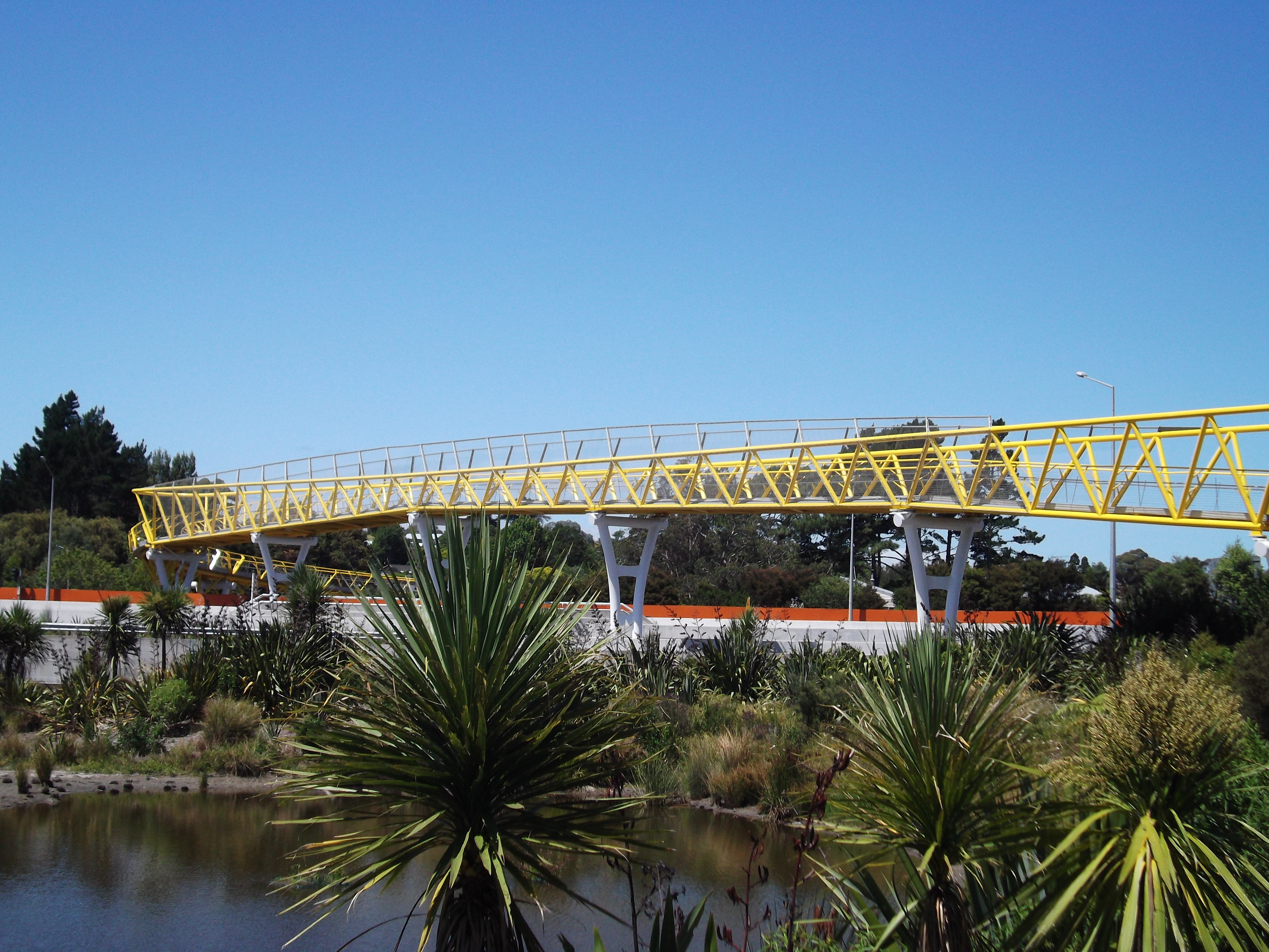 The Westgate Pedestrian and Cycle Bridge on the day of its opening, 31 January 2013